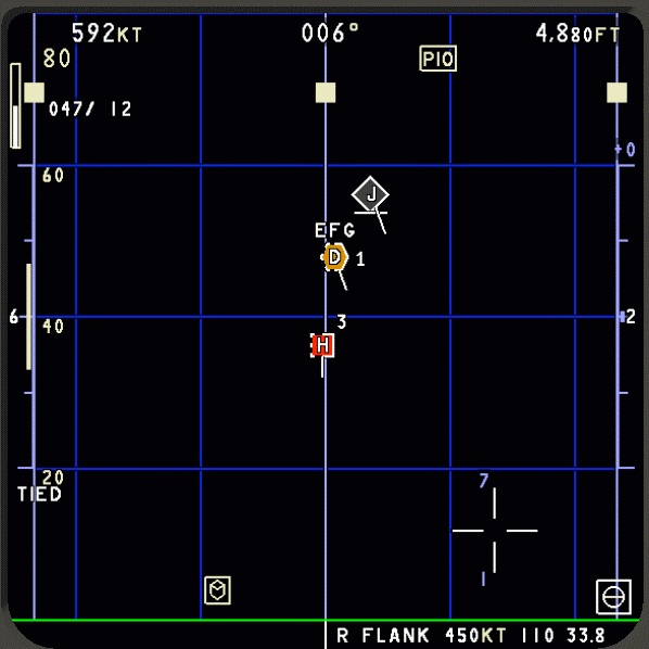 B-Scope image of the PIRATE QWIP sensor. Because the range can be determined passively by image recognition, data can be displayed like on a radar scope.